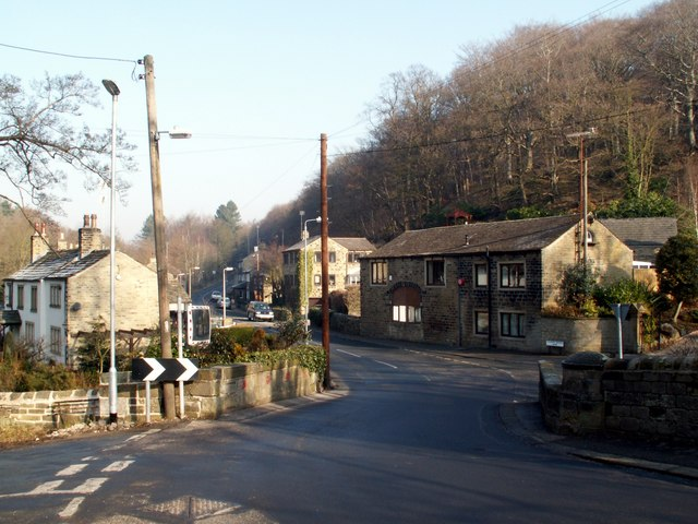 Thunder Bridge Looking to the houses on Thunder Bridge Lane.